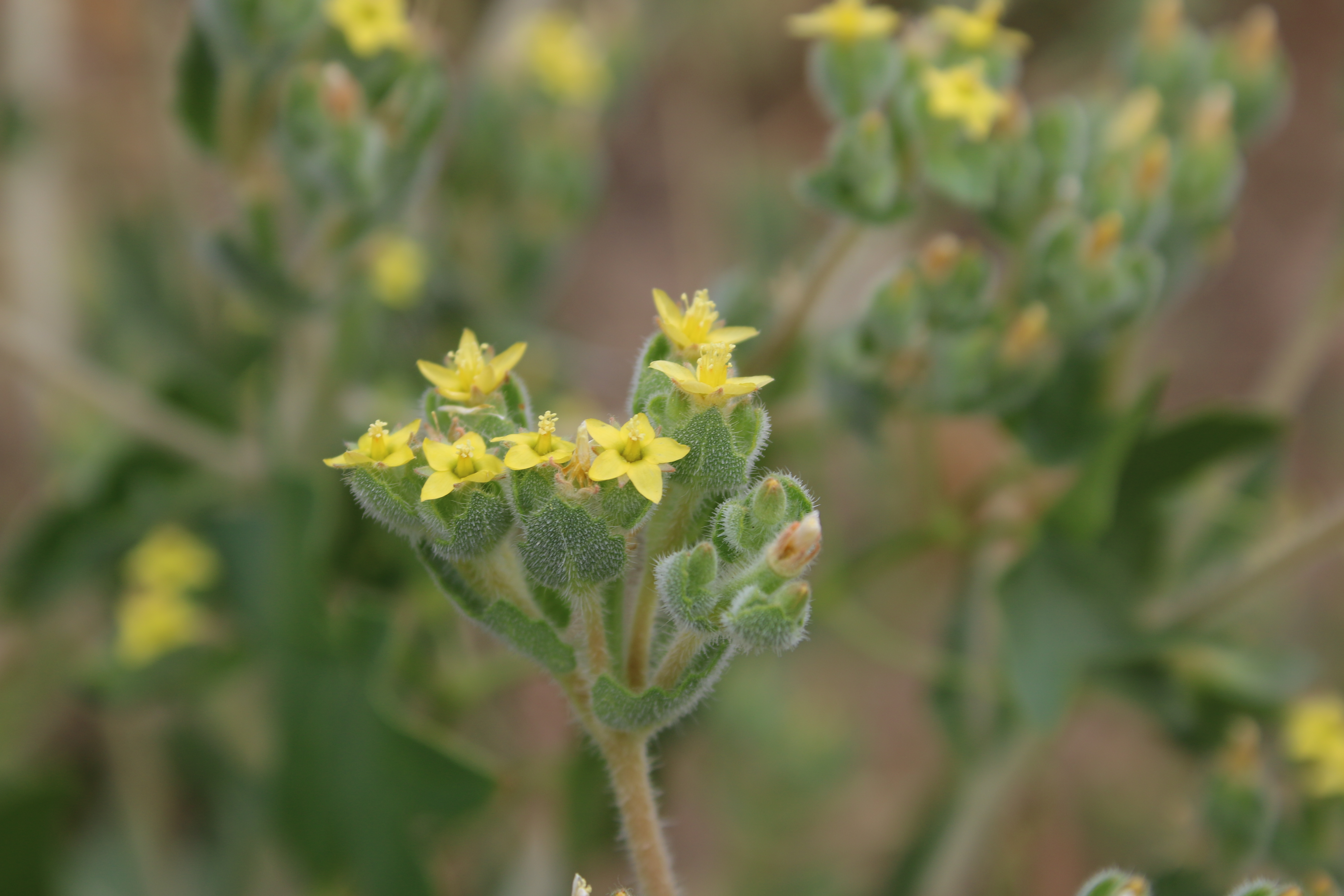 Mentzelia micrantha (San Luis stickleaf)